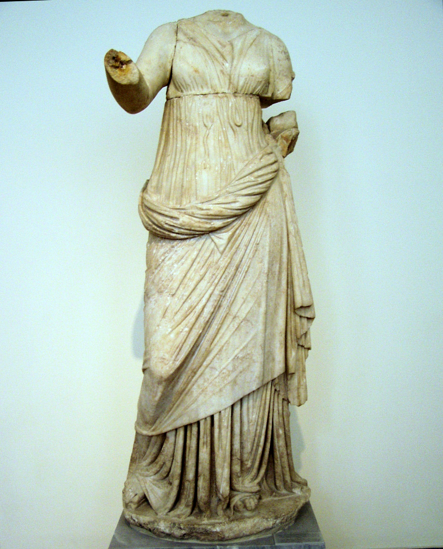 Statue of Amphitrite at the NAMA, Nr 236.